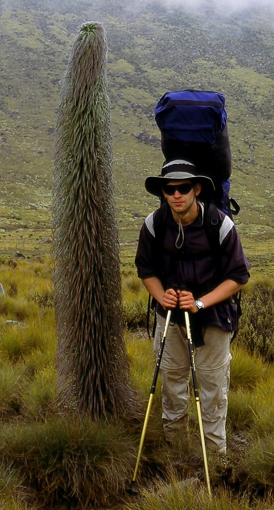 Ostrich Plumed Lobelia, Lobelia telekii, is found on the Afro-Alpine zone of Mount Kenya. It can grow upto 3m high and only occurs in dry areas.